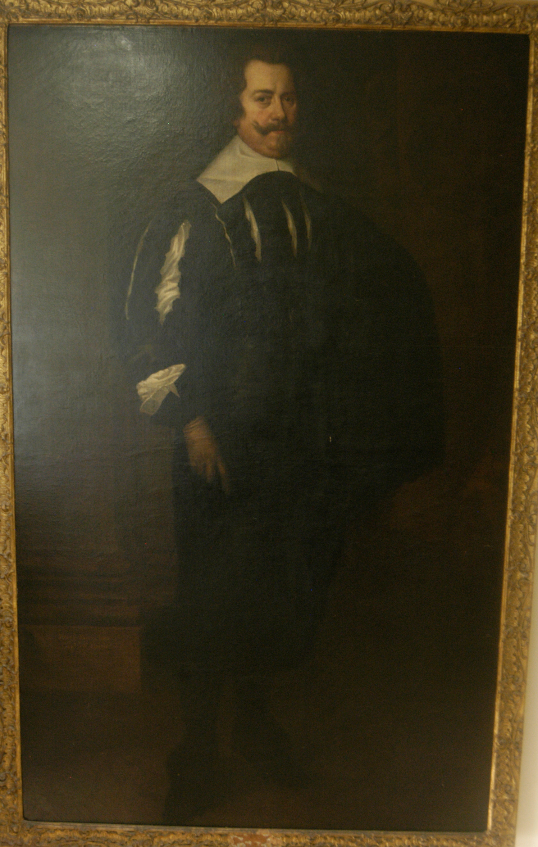 My digital photo of a portrait of Sir Henry Bourchier, KB, 5th Earl of Bath, full length, 80 x 50 inches.